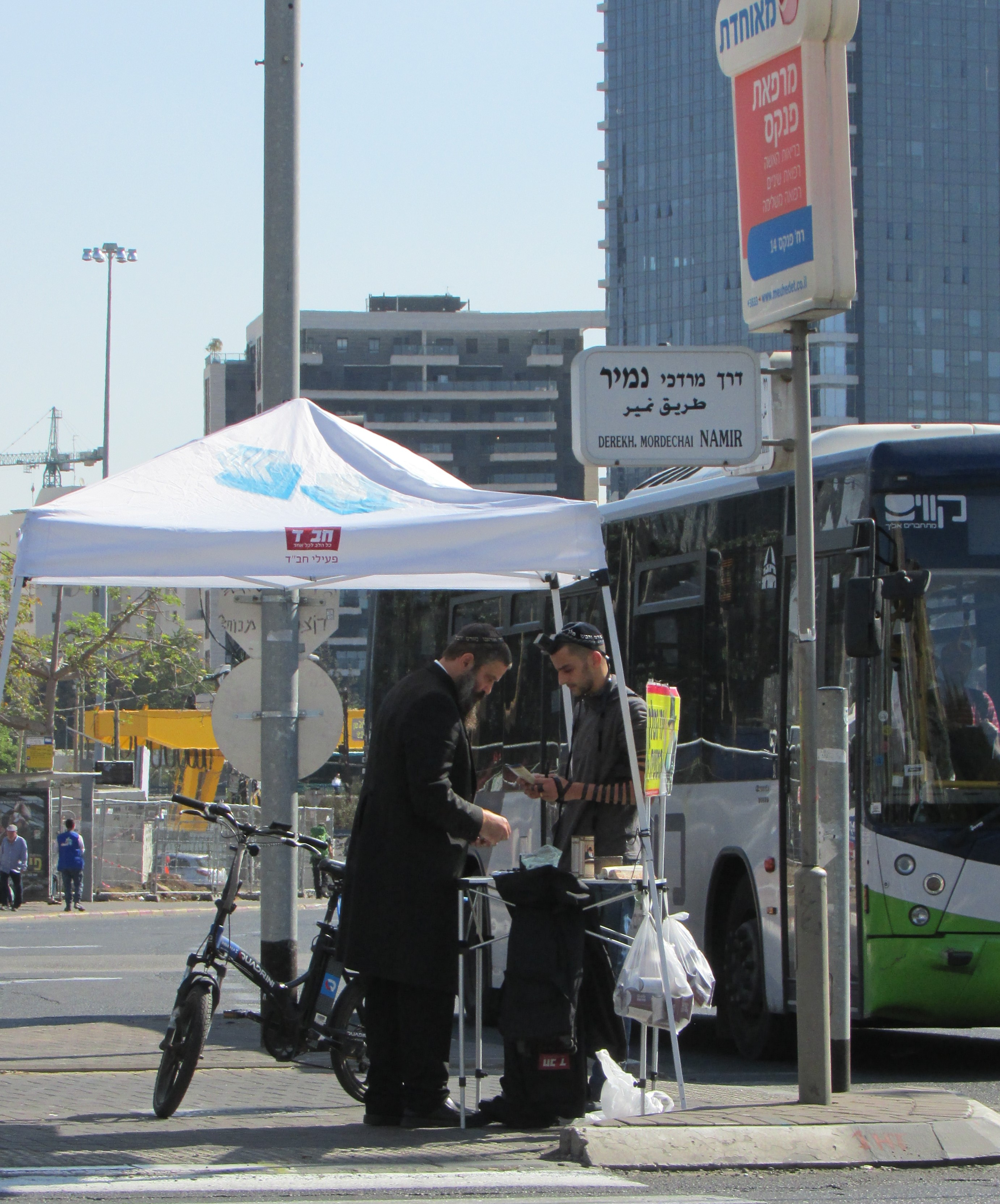 Chabad stand Offering Jews to wear Tefillin in Tel Aviv